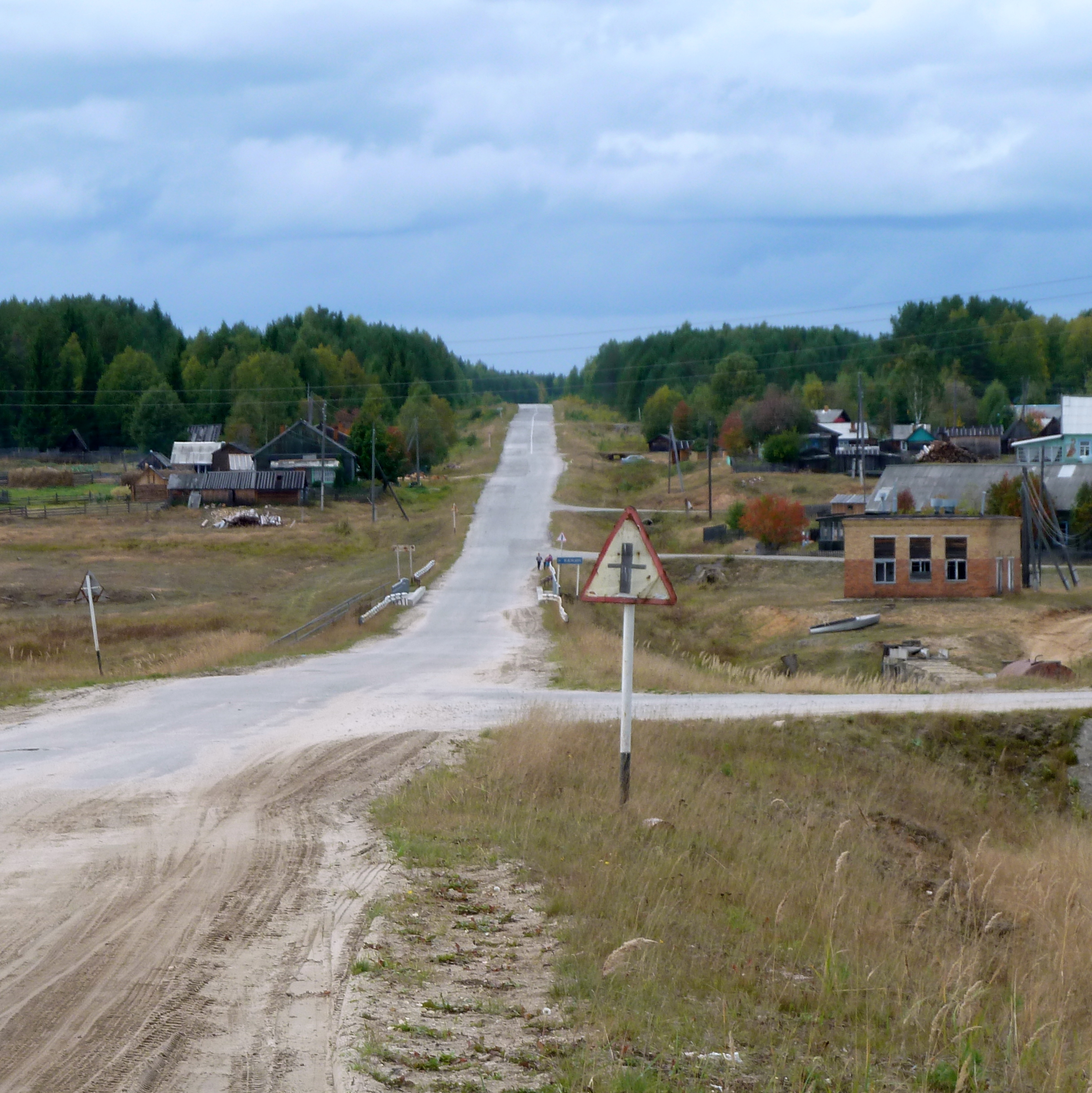 The settlement of Kazhym in Koygorodsky District, Komi Republic